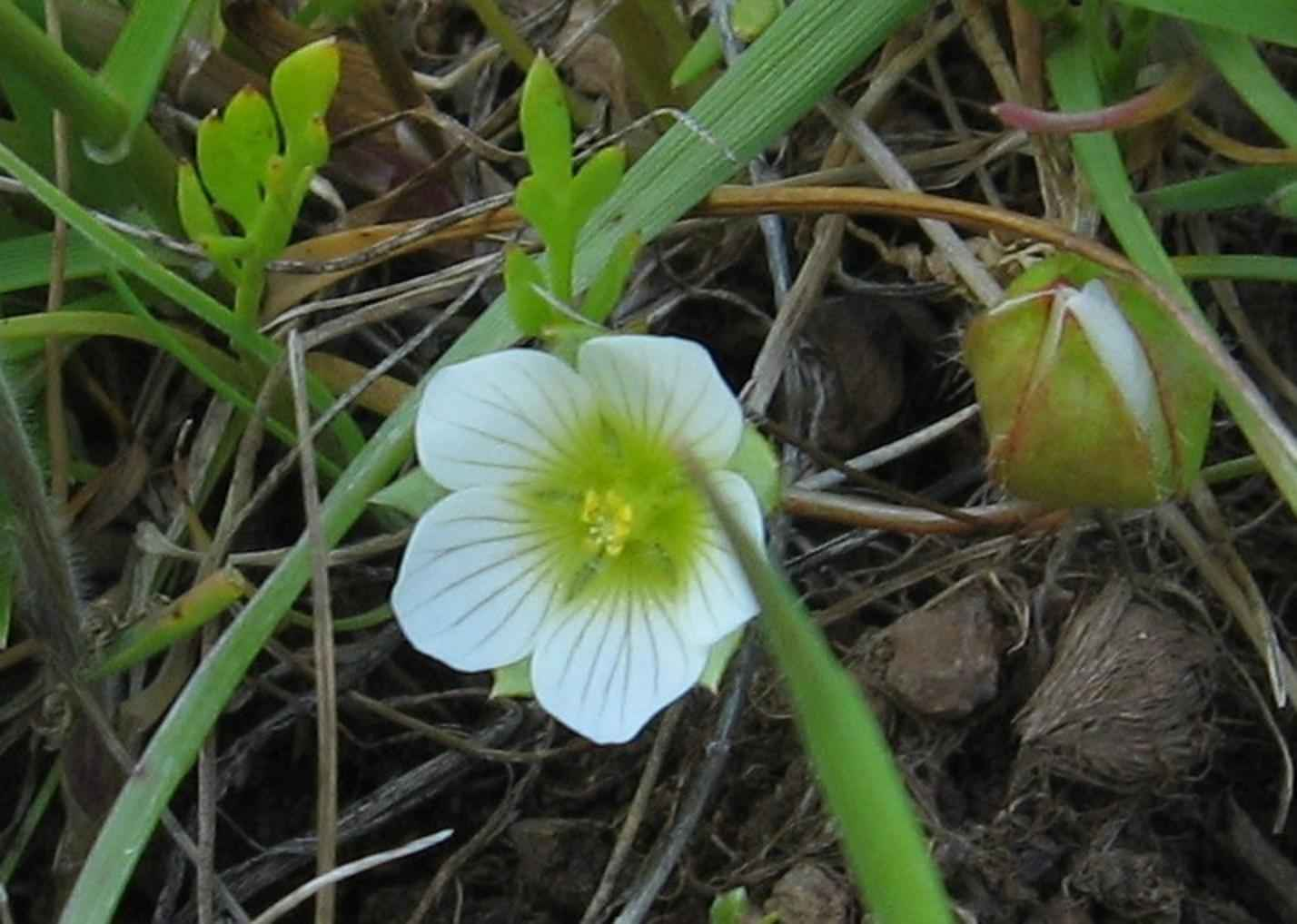 Image title: Woolly meadow foam plant flora flower limnanthes floccosa grandiflora Image from Public domain images website